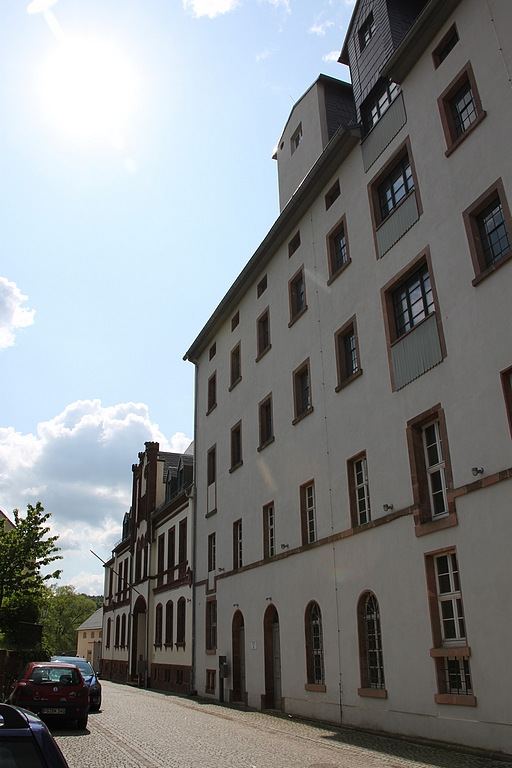 Rochlitz, "Schlossmühle", old watermill on the Mulde river.